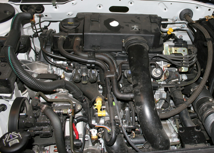 Peugeot Pars 2006 XU7JP/L3 1.8 8V Engine